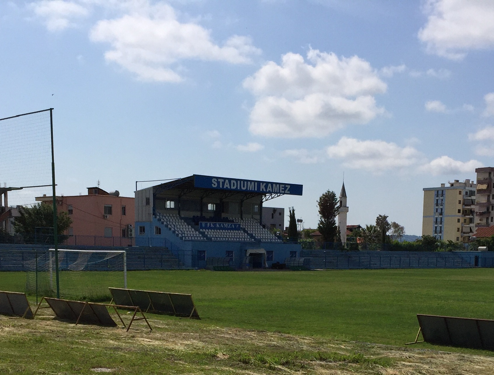 Photo of the Kamëz Stadium taken in 2016.